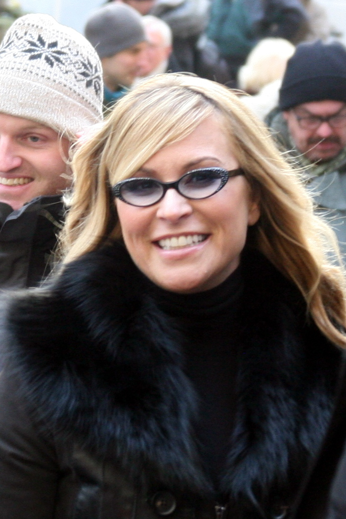 American singer-songwriter Anastacia during a music video shoot in Prague, Czech Republic